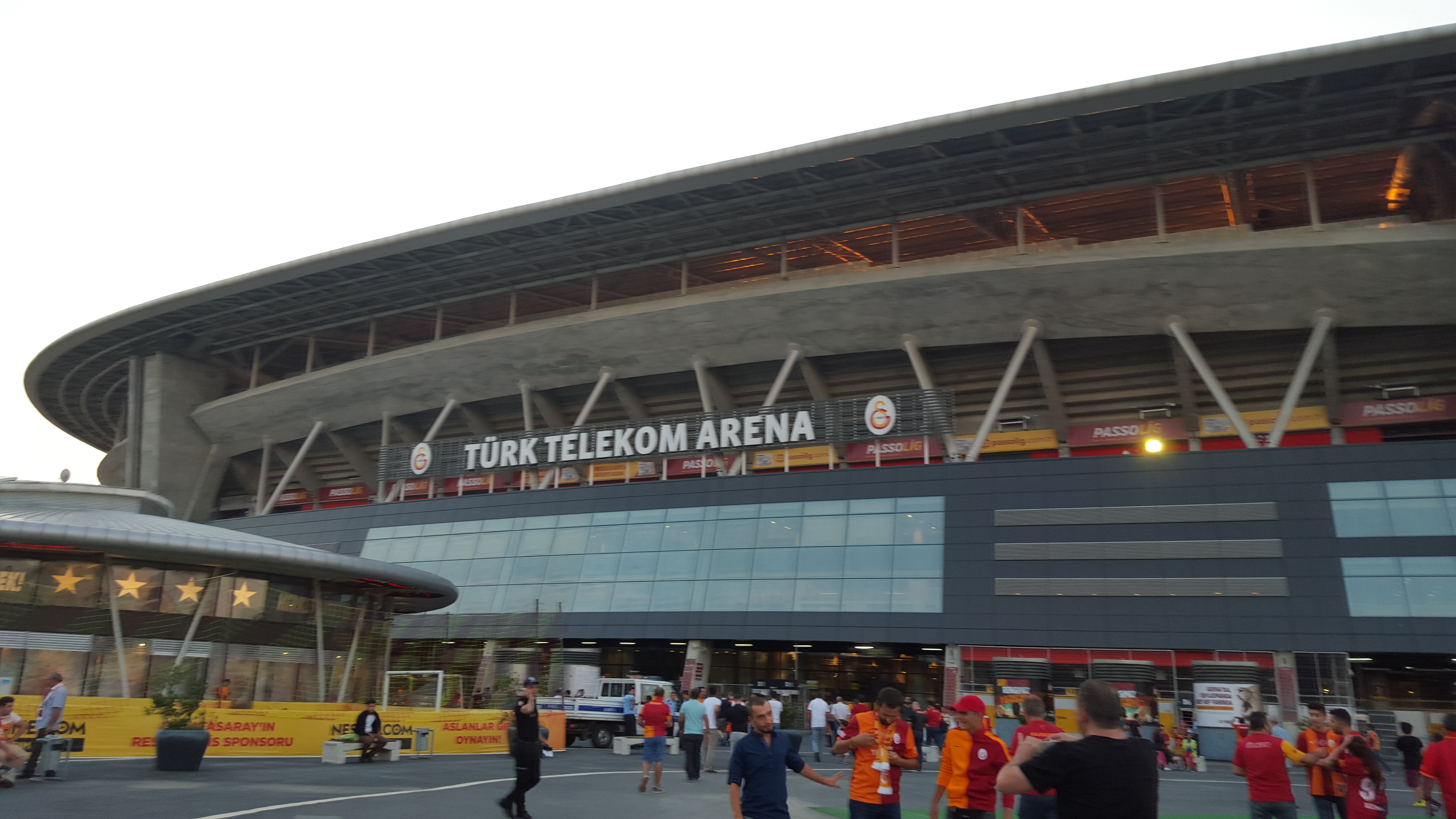 Turk Telekom Arena Istanbul - Galatasaray SK home stadium